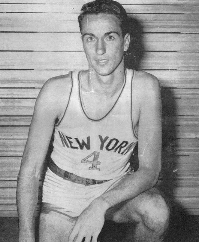 Professional basketball player Carl Braun